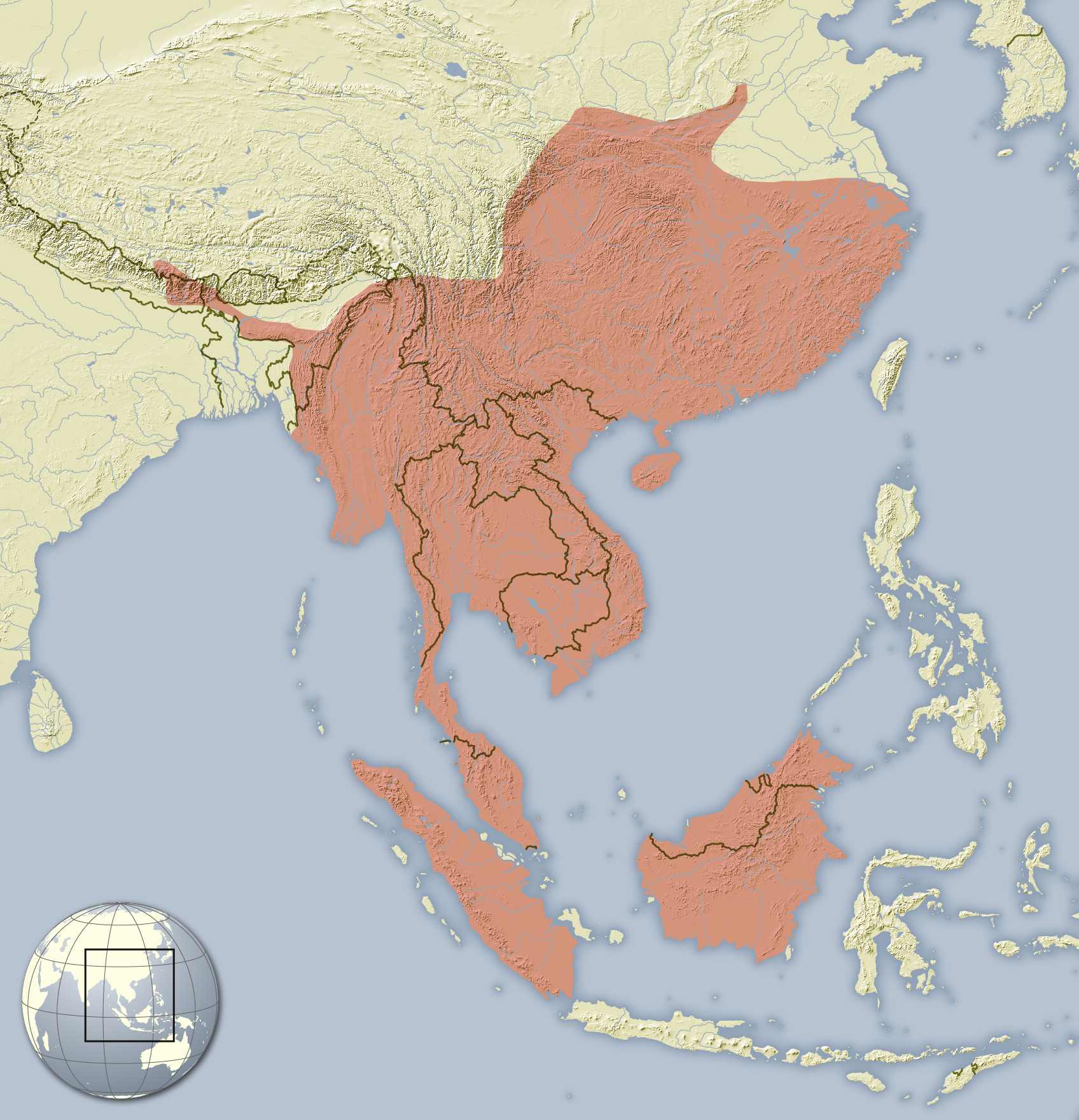 Distribution map of the Malayan porcupine